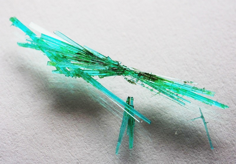 Picture of copper(II)chloride crystals, enlarged picture.